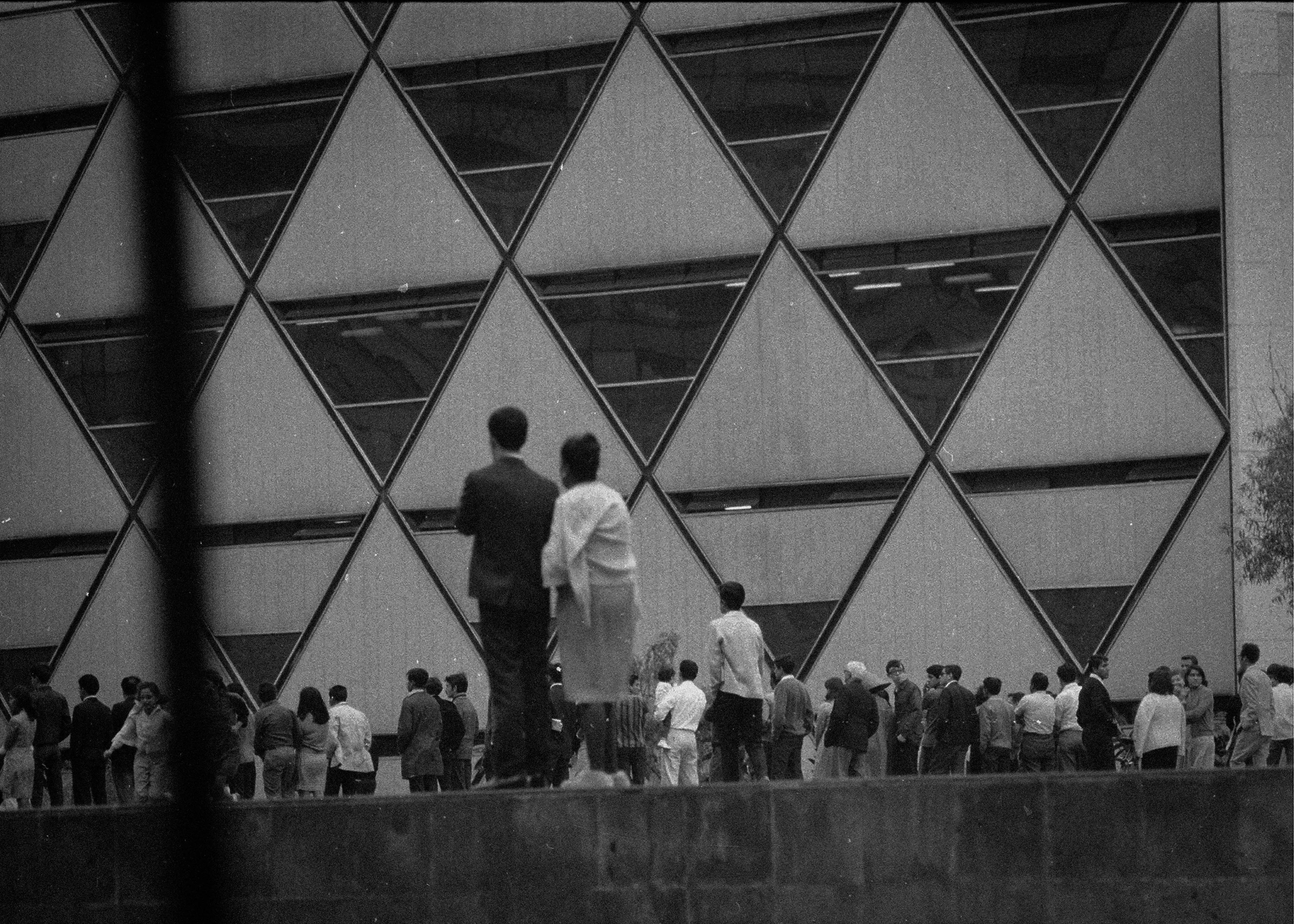 Images of Mexico City Student Movement, October 1968.